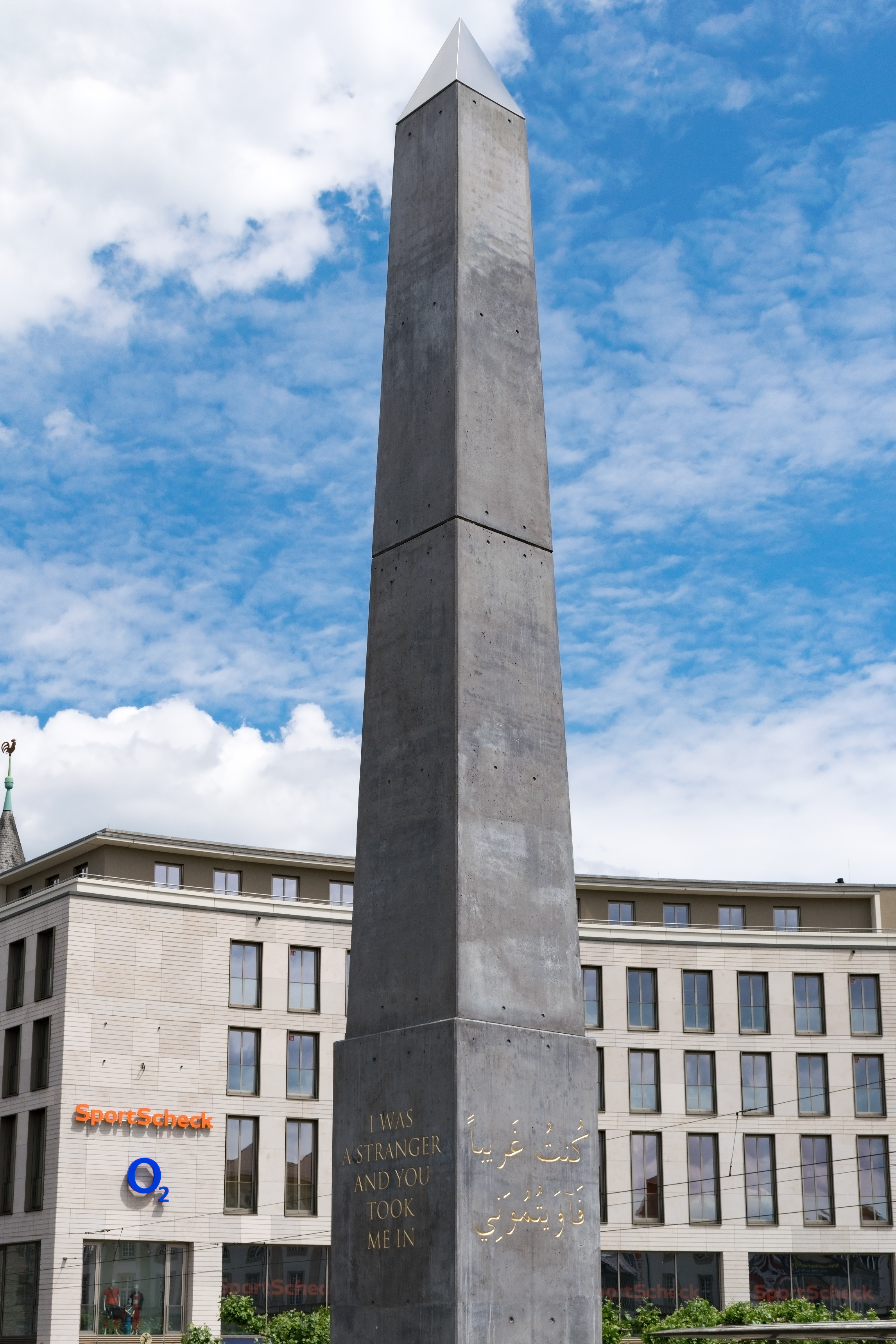 The Obelisk of Olu Oguibe, 16.20 m high. This is on the four pages in the languages German, English, Turkish and Arabic with the quotation "I was a stranger and you took me in".